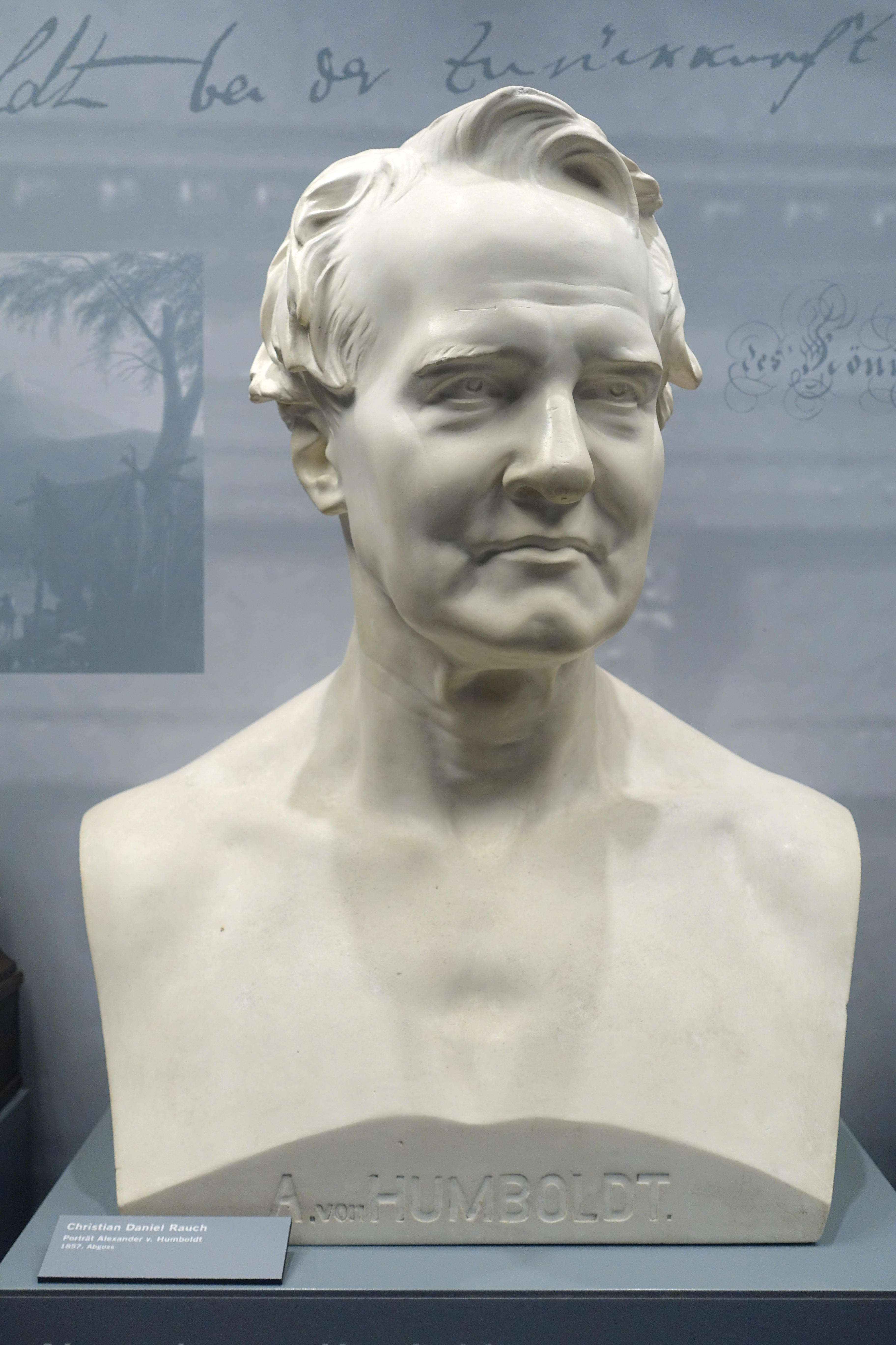 Bust in Museum fur Naturkunde, Berlin, Germany. This artwork is in the public domain because the artist died more than 70 years ago.